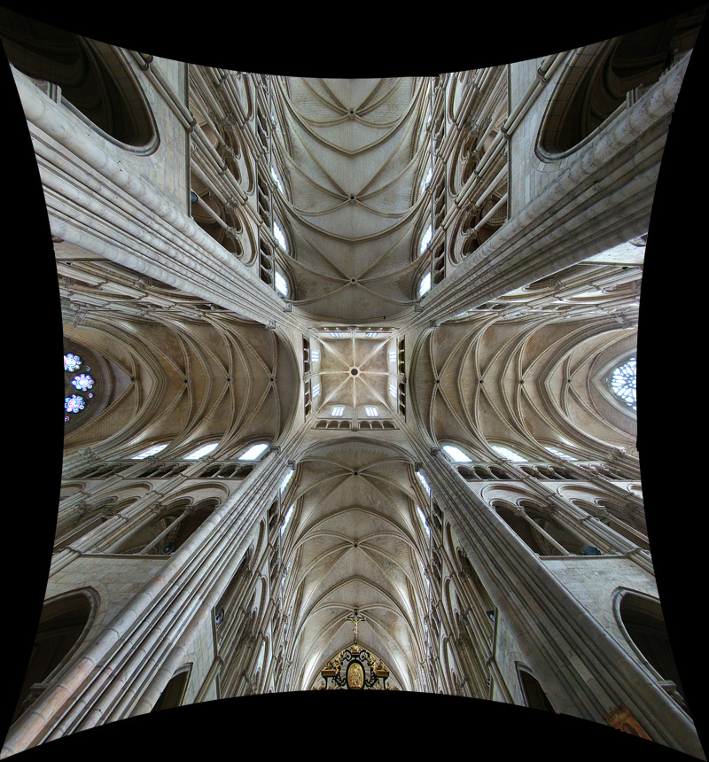 Laon Cathedral, Aisne, Picardie, France. Vault at the transept crossing: choir at bottom, nave at top, transept across.